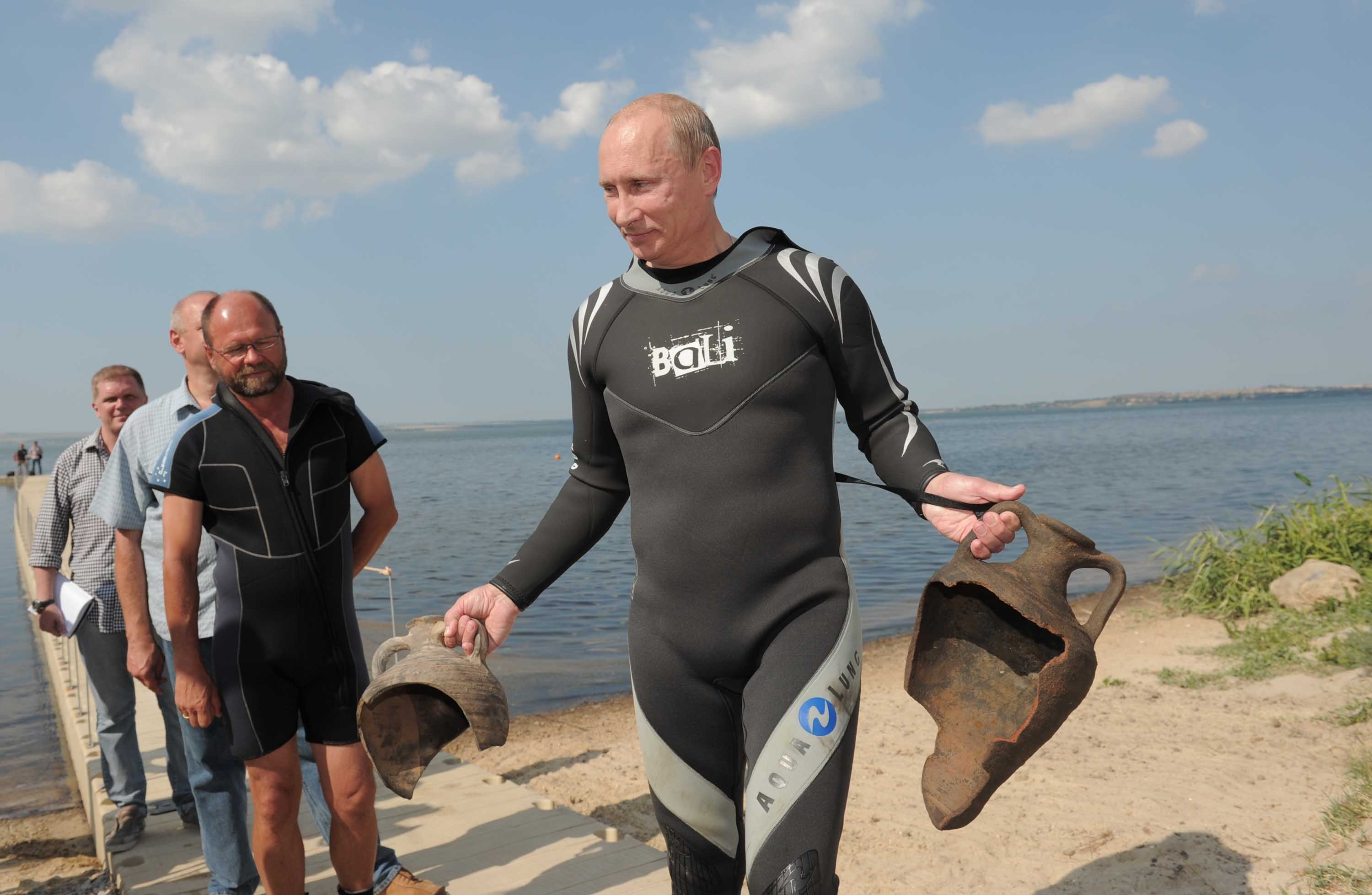 Putin with amphora jugs after scuba diving in Phanagoria